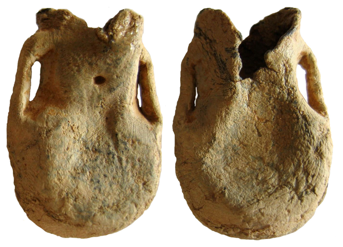 A Medieval complete lead alloy ampulla. The lower part of the ampulla has a rounded base, which tapers to a midway point, then flares outwards at the open upper edge. On either side of the midway point is an integral loop. Both faces of the ampulla are undecorated but an ornamental point in one of their sides.